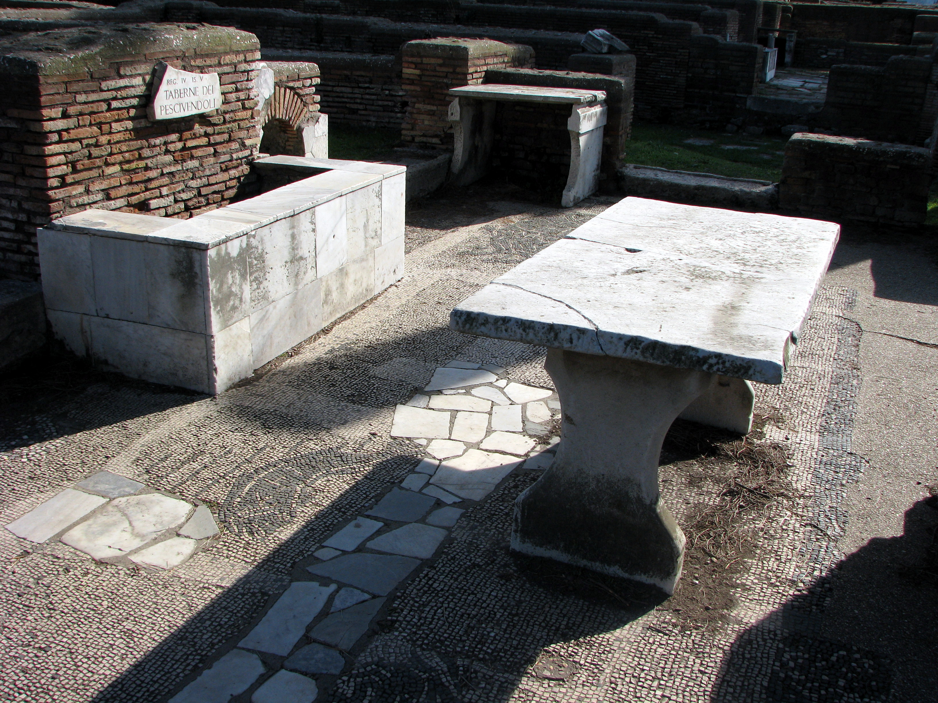 Fishtavern in Ostia Antica